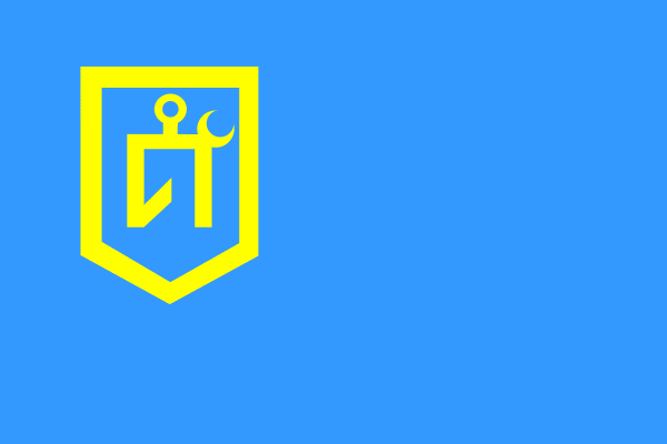 Flag of Idel-Ural State